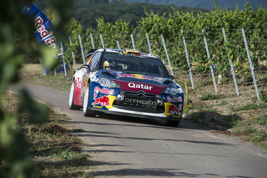 Rally Germany 2012 ADAC Rallye Deutschland,Citroen DS3 WRC,Citroen Junior WRT,Citroen Junior World Rally Team,Motorsport,Nicolas Gilsoul,Rally,Rallye,Rallye Deutschland,Shakedown,Thierry Neuville,WRC